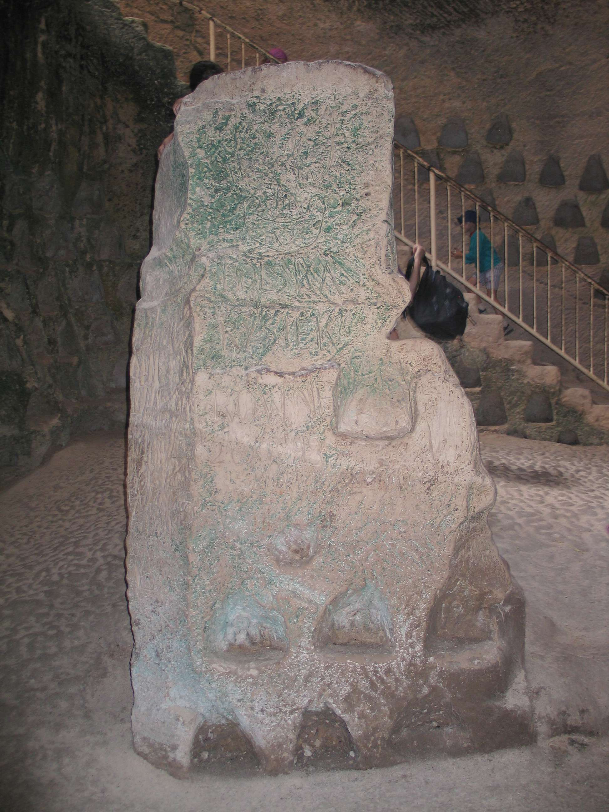 Beyt Govrin national park, Israel. The "Polish" cave.